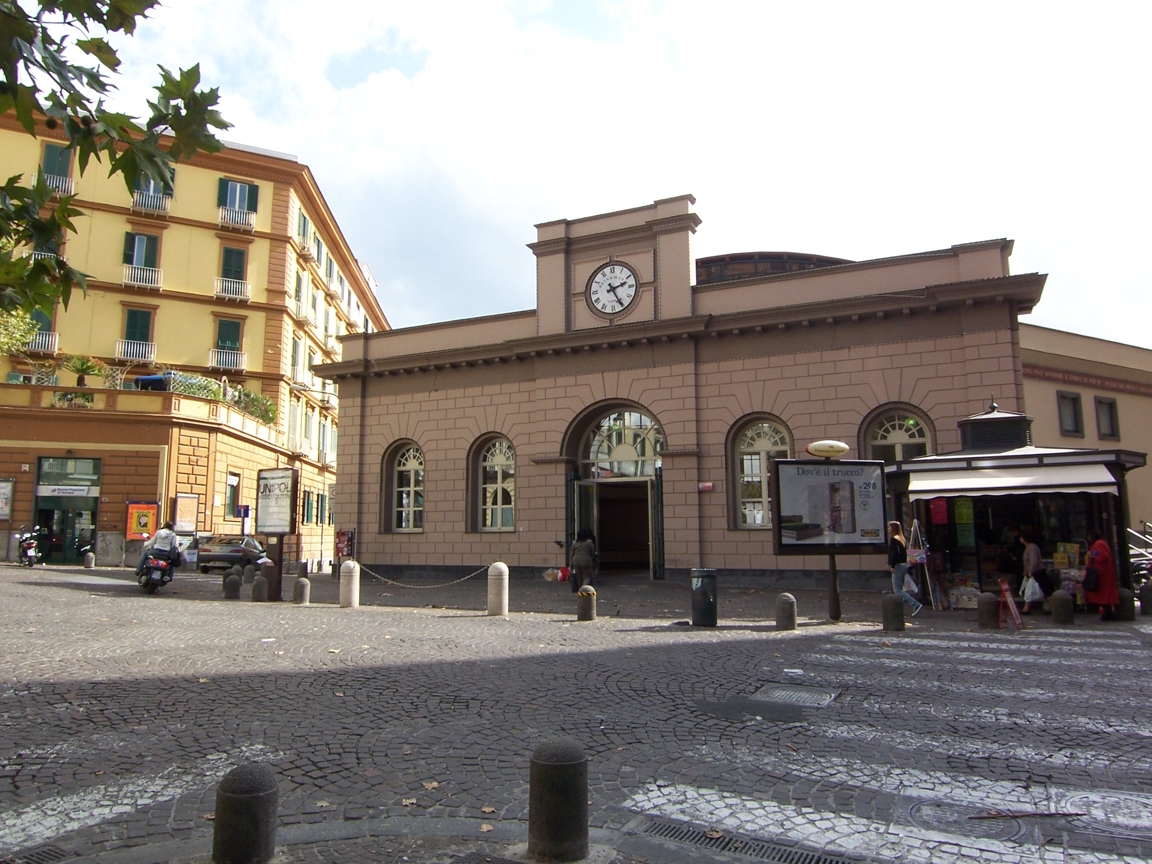 Chiaia funicolar in Naples, Italy, district of Vomero.